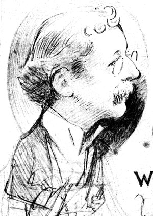 Self-caricature by Irish political cartoonist John Fergus O'Hea, scanned from Joel A. Hollander, Coloured Political Lithographs as Irish Propaganda, The Edwin Mellen Press, 2007